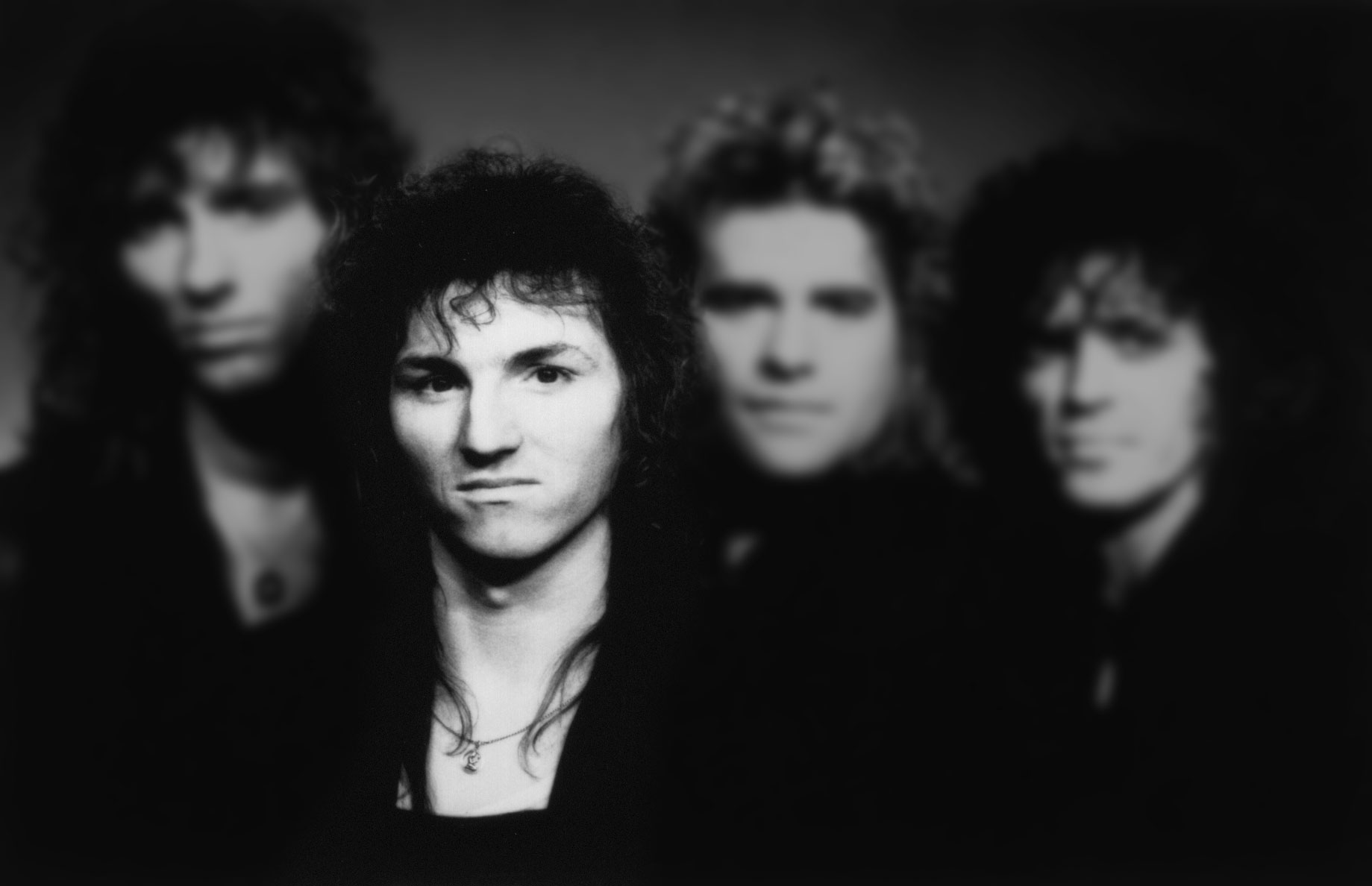 Bernhard Weiß on the autograph card for the AXXIS debute album "Kingdom of the night"